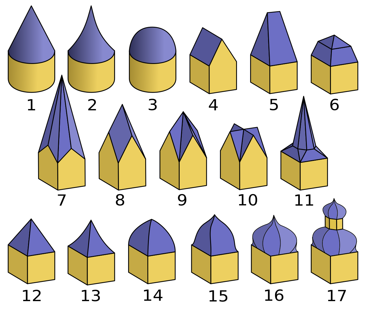 Forms of roofs on towers and church towers, with numbers